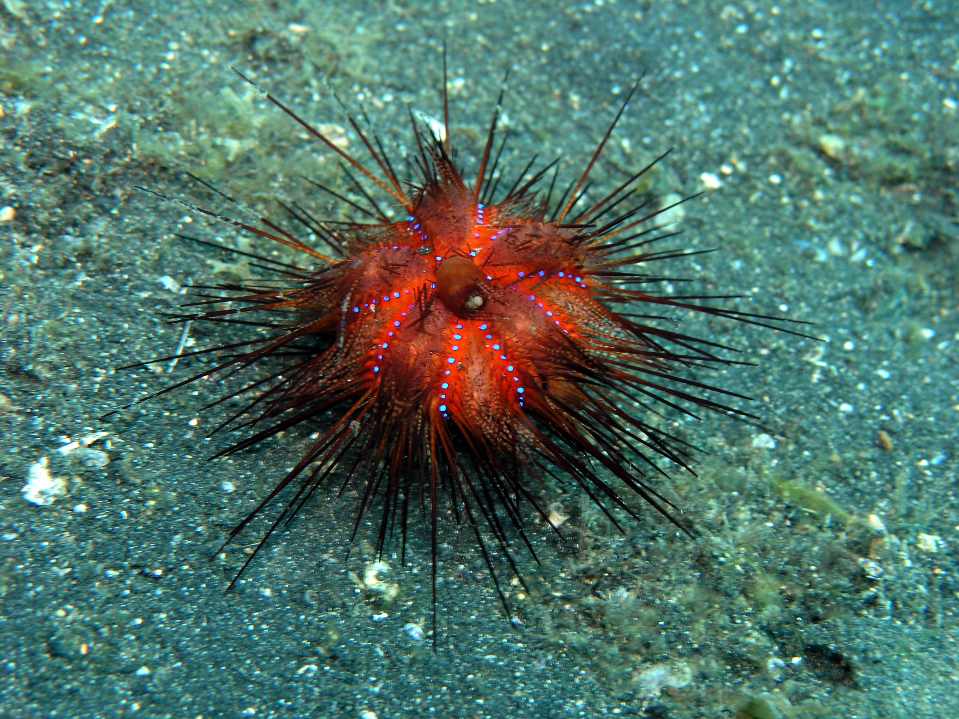 Image of red urchin, Astropyga radiata. Taken at Lembeh straits, North Sulawesi, Indonesia.